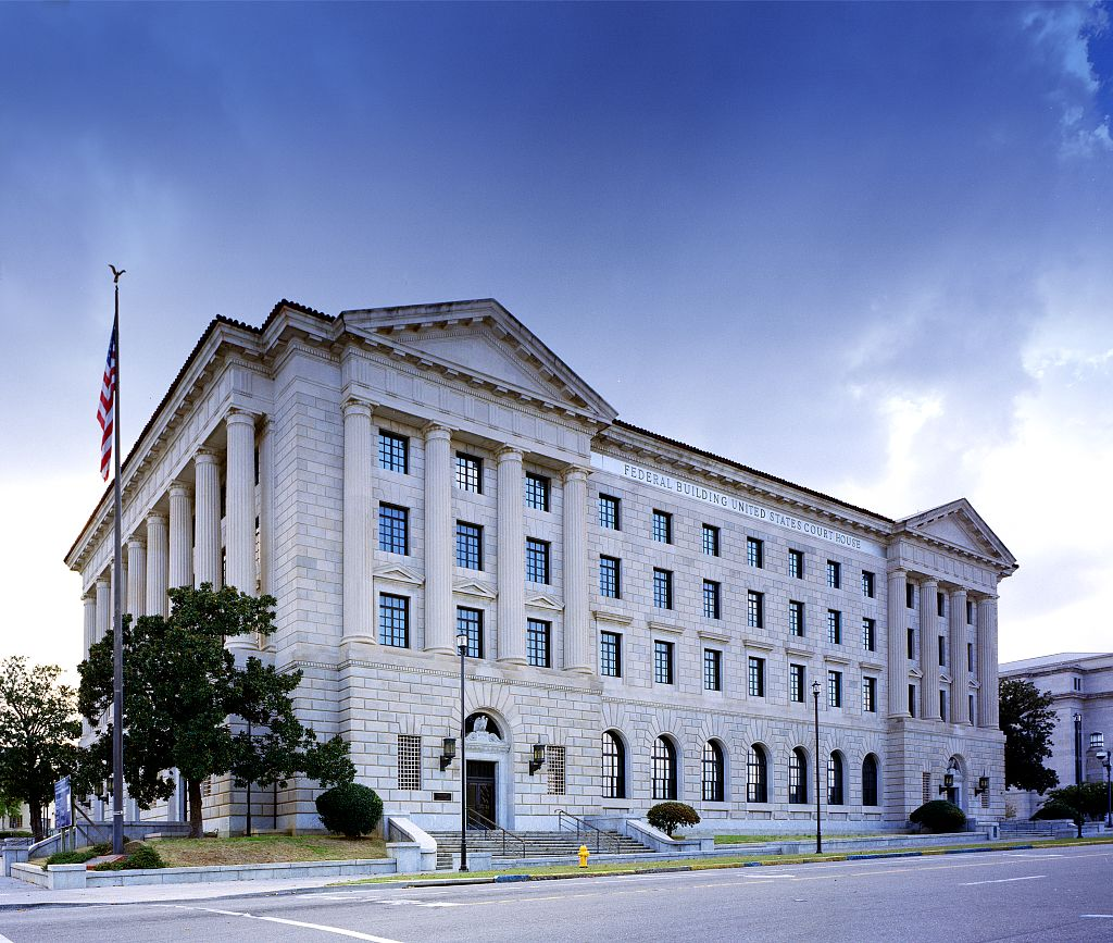 Frank M. Johnson Jr. Federal Building and U.S. Courthouse located on 15 Lee Street in downtown Montgomery, Alabama. Built in 1932 and in the 1950s major civil rights issues were decided in this building.